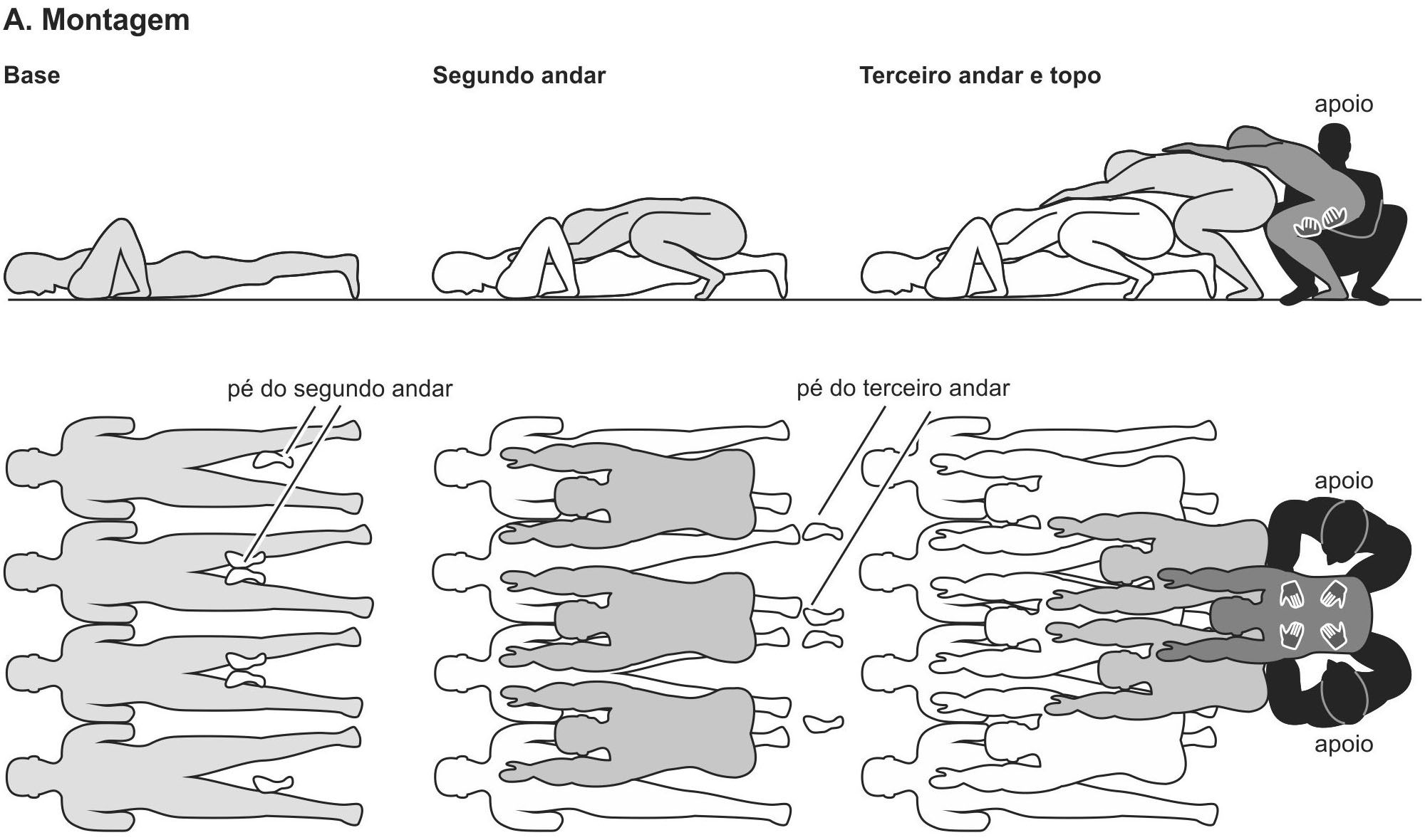 Posição inicial da pirâmide de 4 andares de levantamento instantâneo.